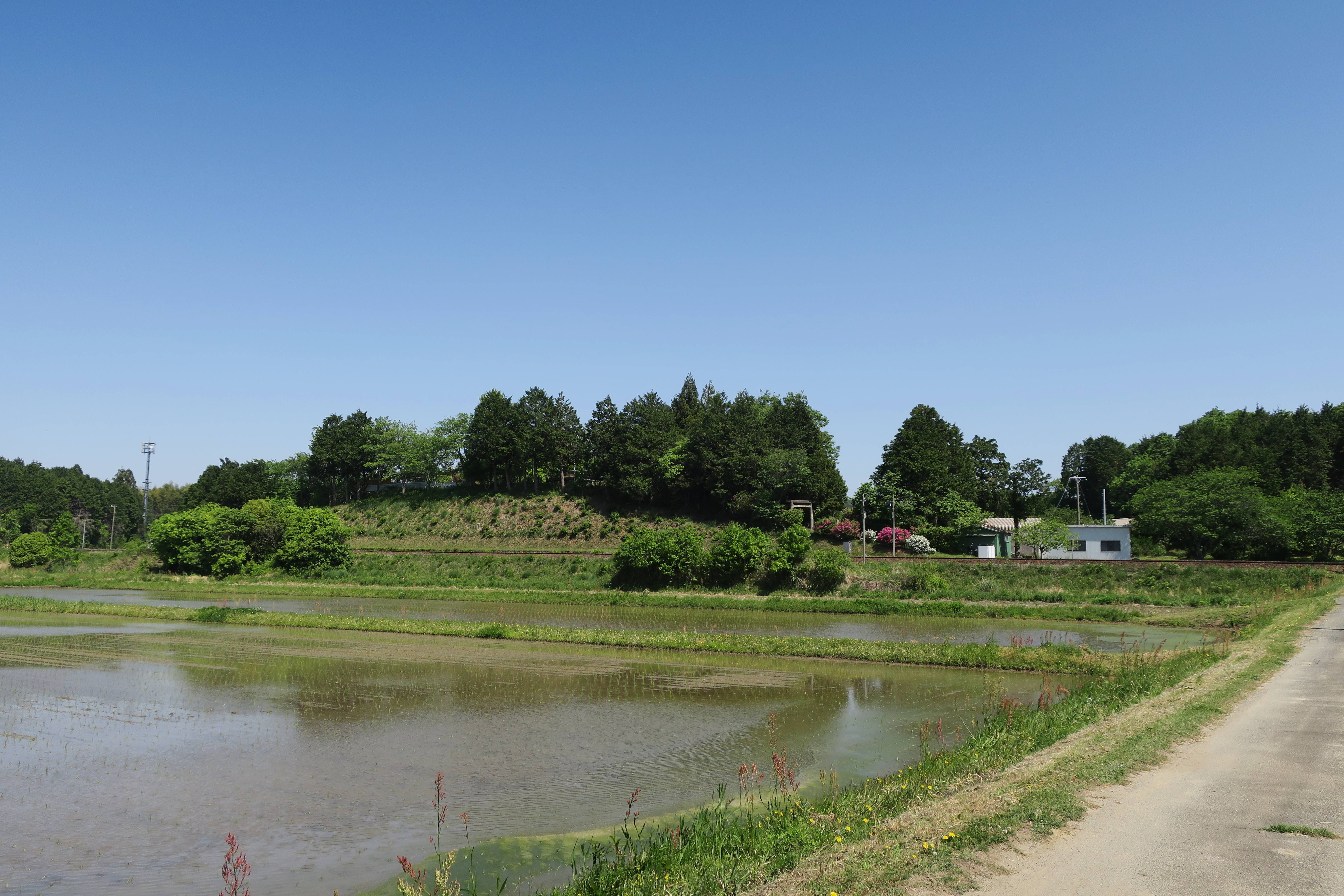 Shiawasenomiya (Taki, Mie).